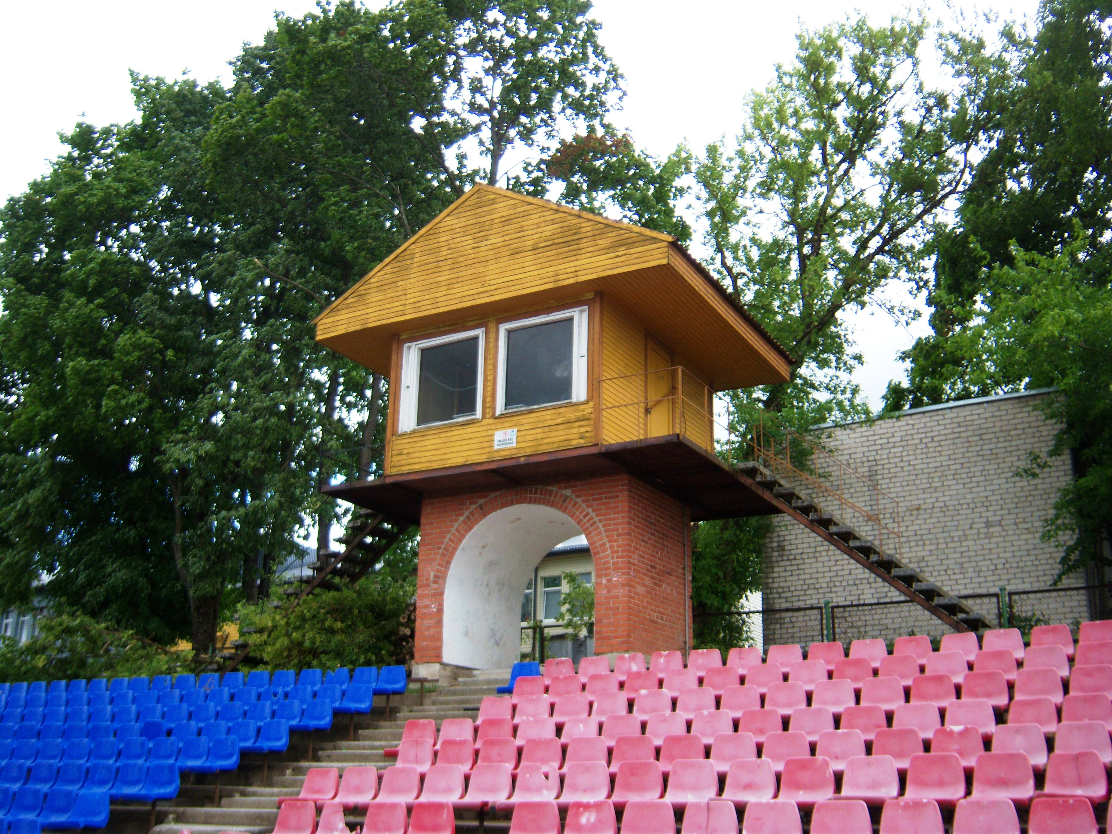 Football stadium, Raseiniai, Lithuania